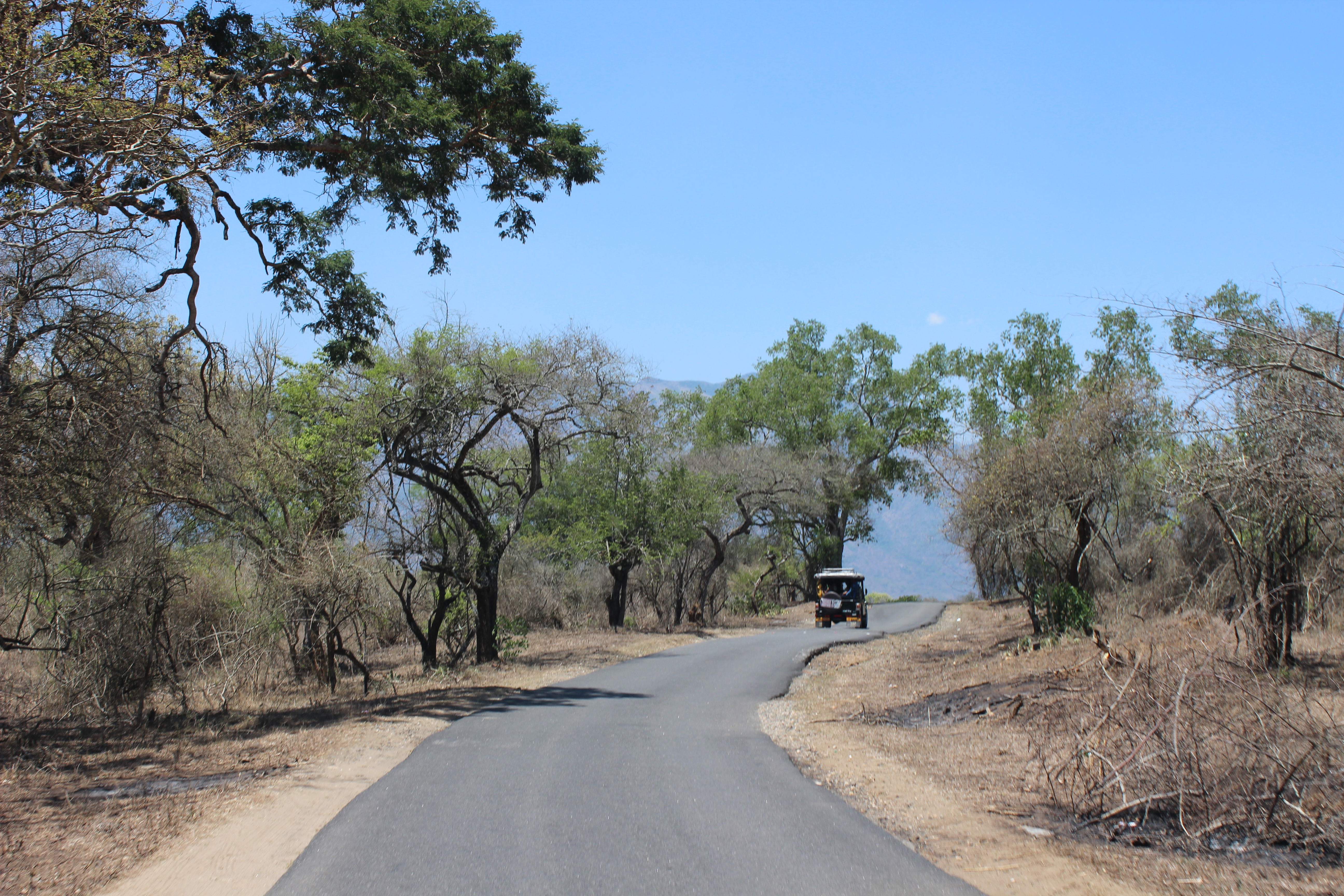 Tiger Safari in Mudumalai Tiger Reserve, Tamil Nadu